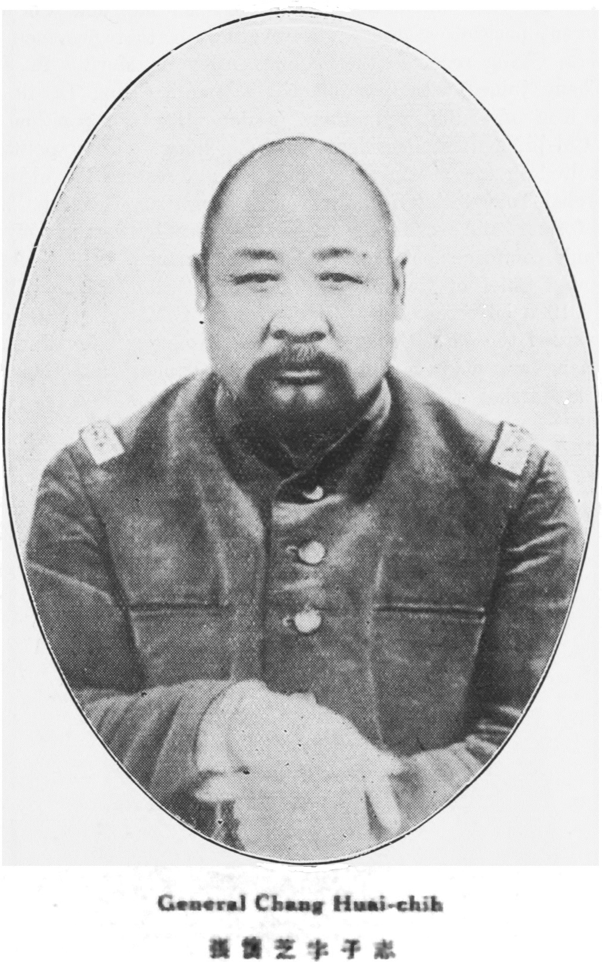 Zhang Huaizhi, Zizhi (1862 - 1934)